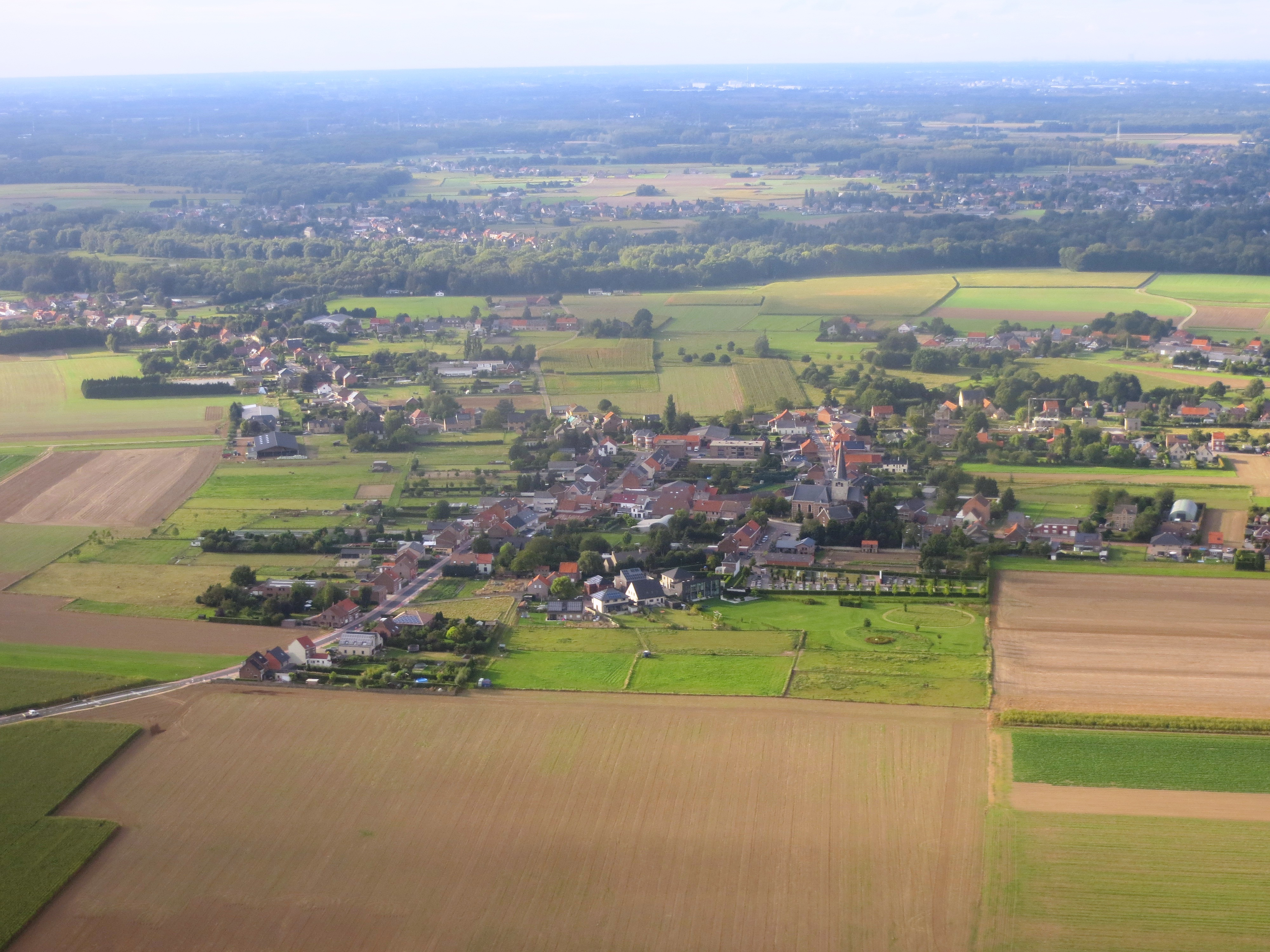 Aerial view from the (south)east towards (north)west, over the Hageland-Leuven region of northern Belgium. This municipality lies north of Brussels and west of Leuwen.